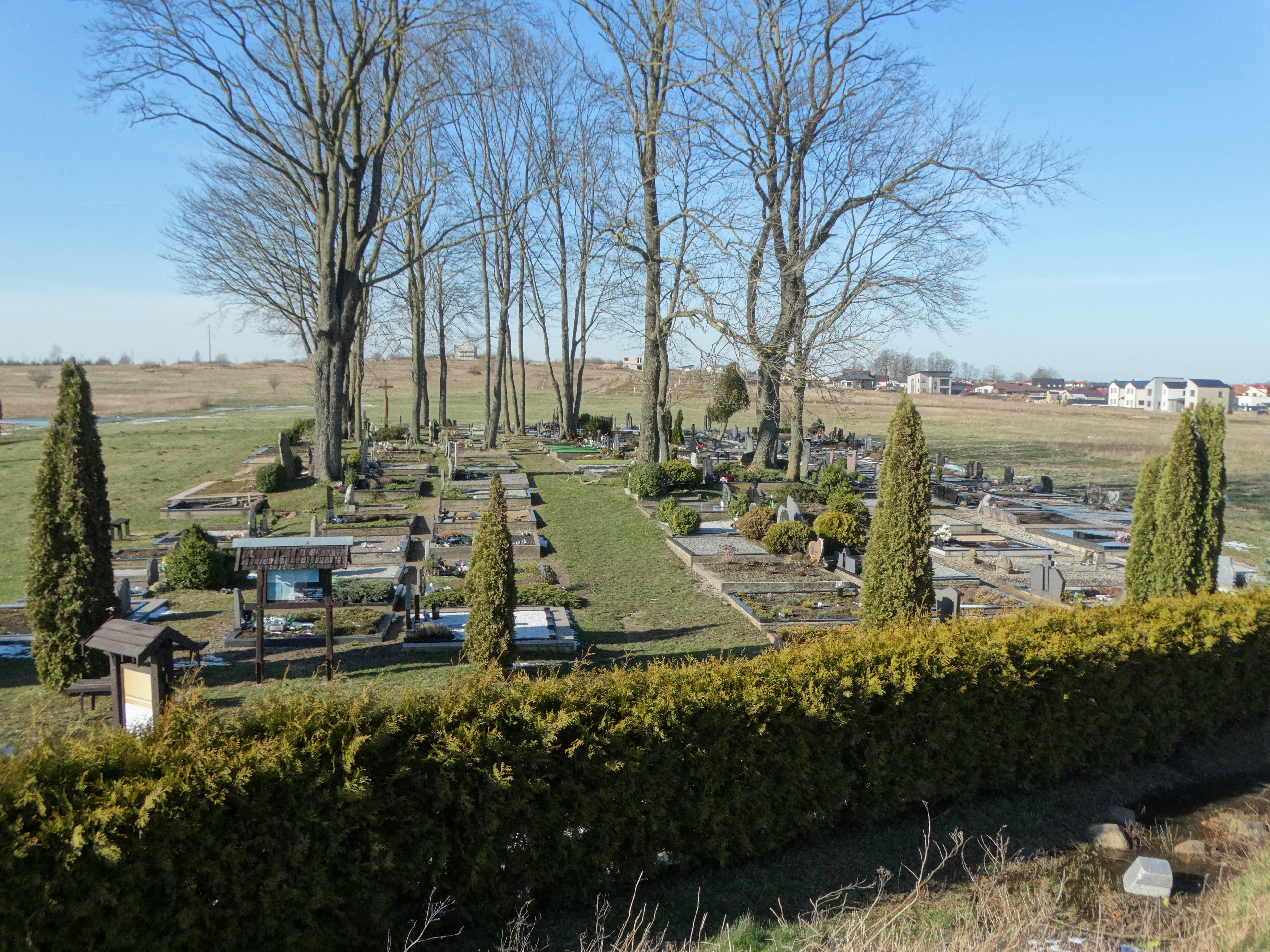 Old cemetery, Slengiai, Lithuania